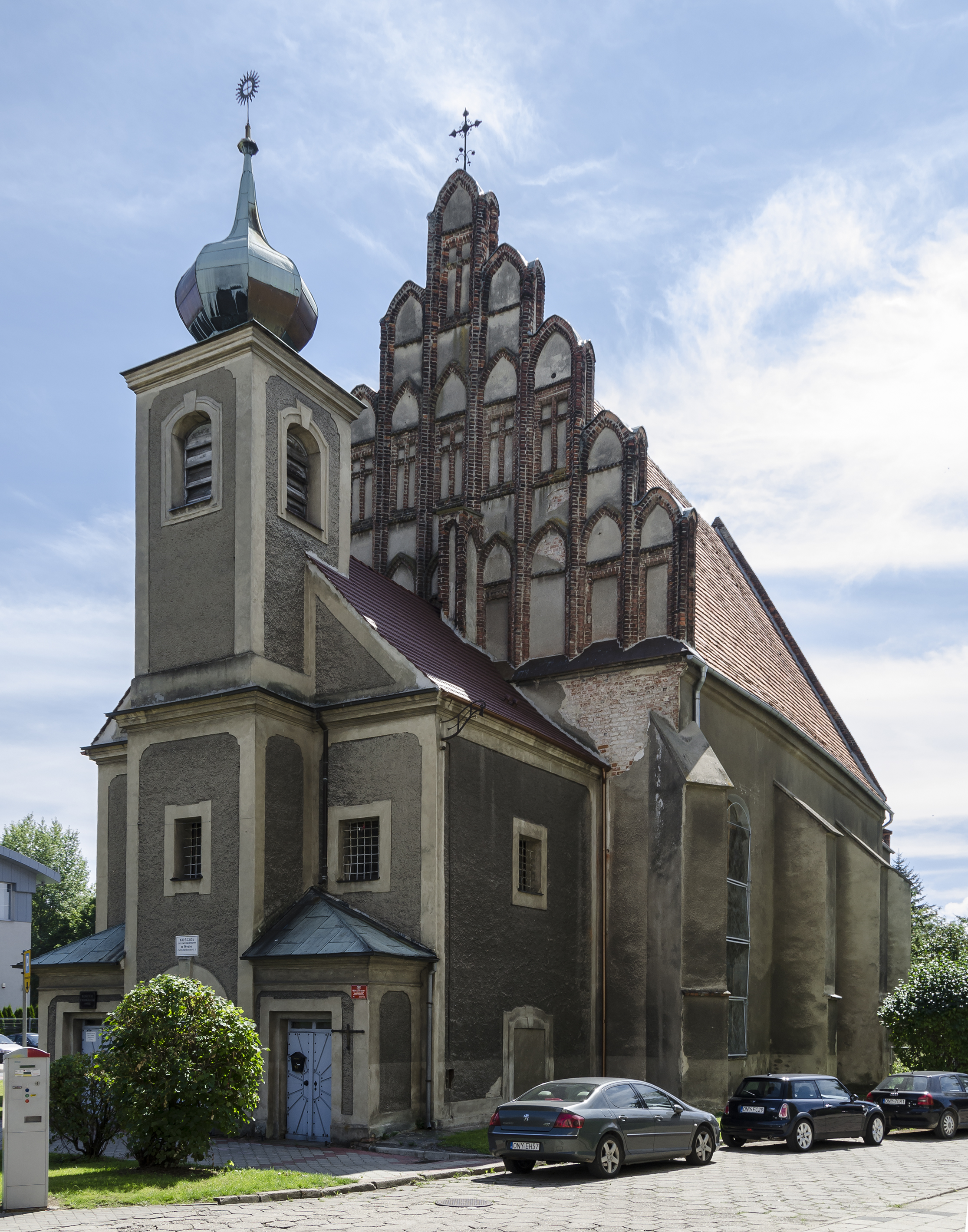 Saint Barbara church in Nysa